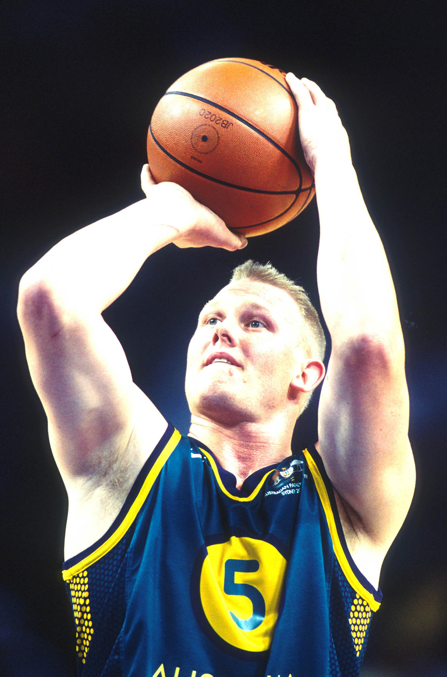 Australian wheelchair basketballer Troy Sachs during a match at the 2000 Sydney Paralympic Games